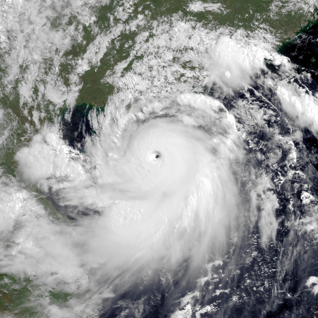 Typhoon Rammasun on July 18, 2014